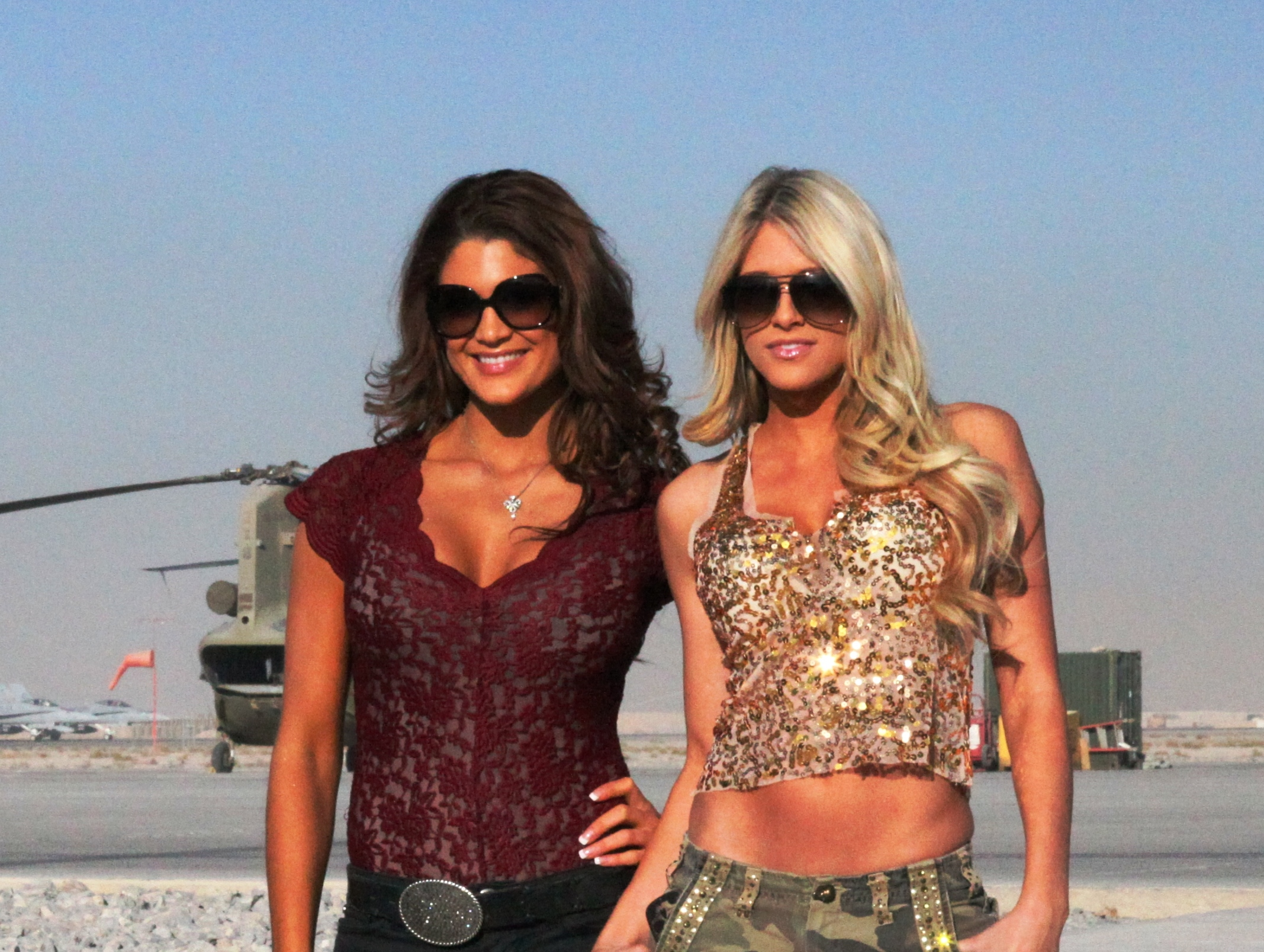 Eve Torres (left) and Barbara Blank (aka Kelly Kelly; right) posing for a photo at Kandahar Airfield in Kandahar province, Afghanistan, on December 3, 2010, as part of the WWE Tribute to the Troops tour.